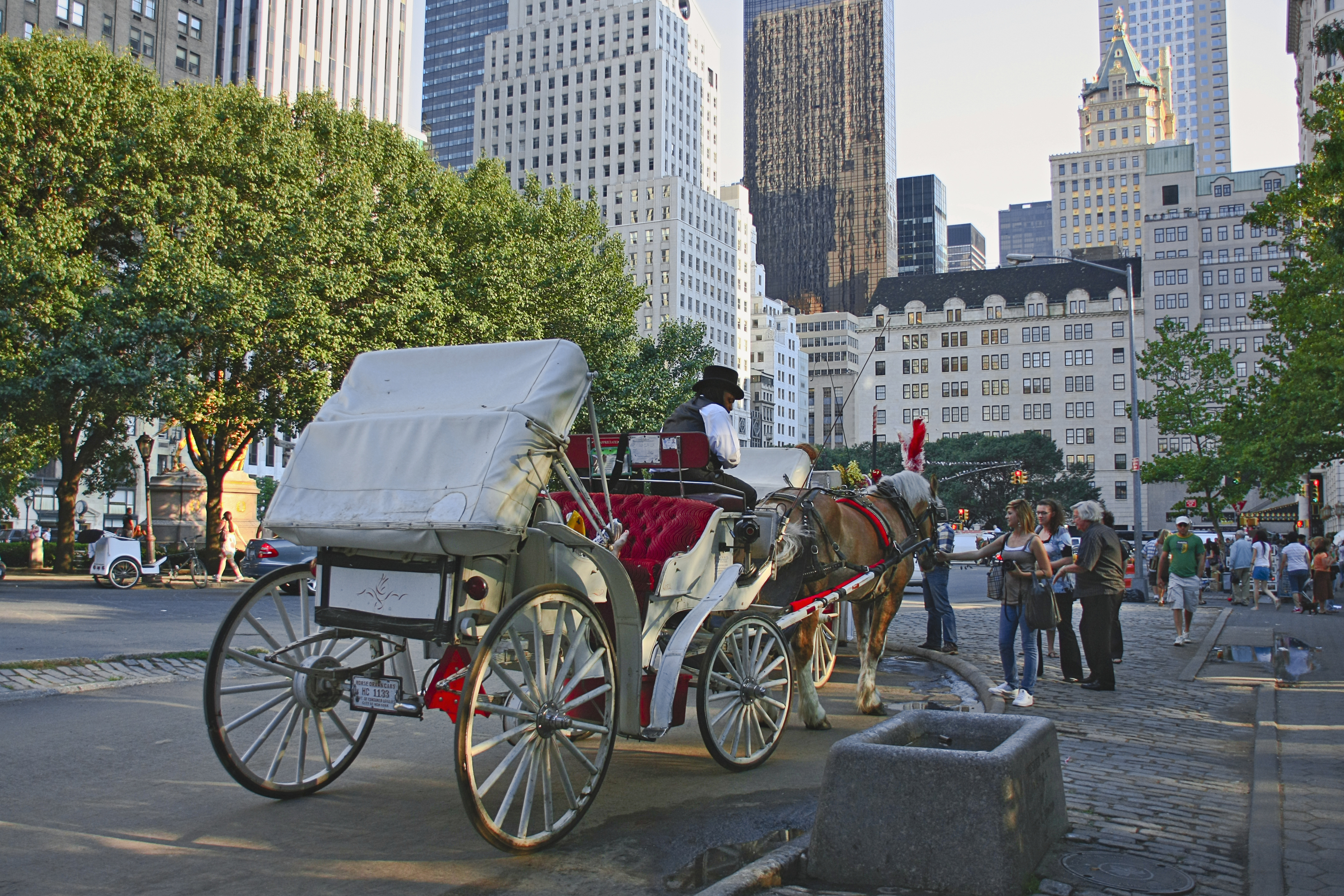 New York. Central Park. Carriage